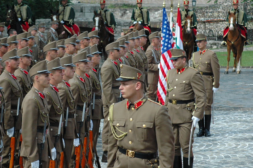 Military of Hungary welcome the President of the United States